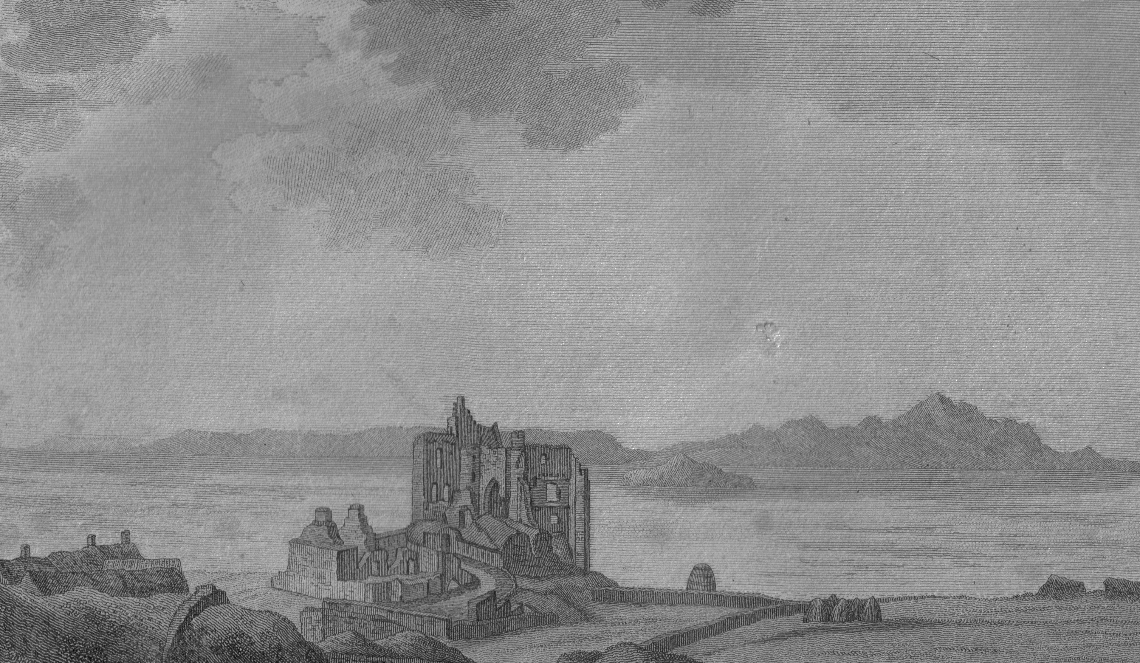 Dunure Castle, South Ayrshire, Scotland